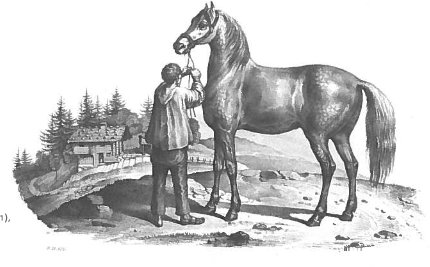 Light horse of Switzerland, engraving by J. H. Honegger, Zurich, 1842.